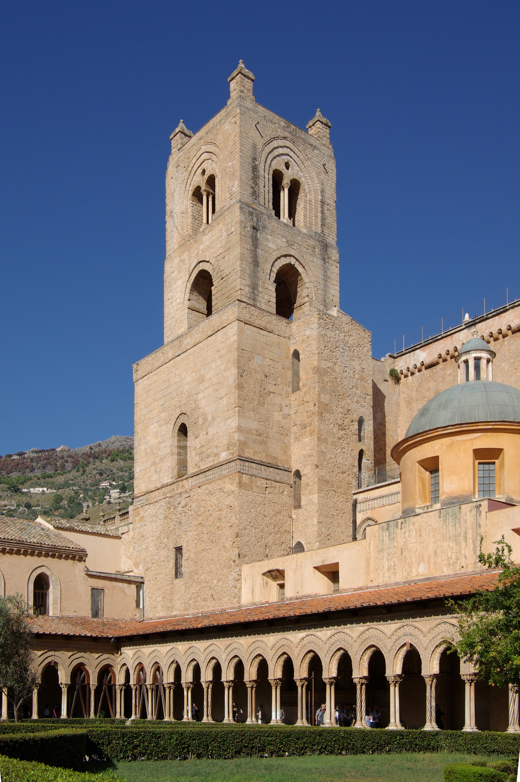 Italy, Sicily, Monreale, Cathedral